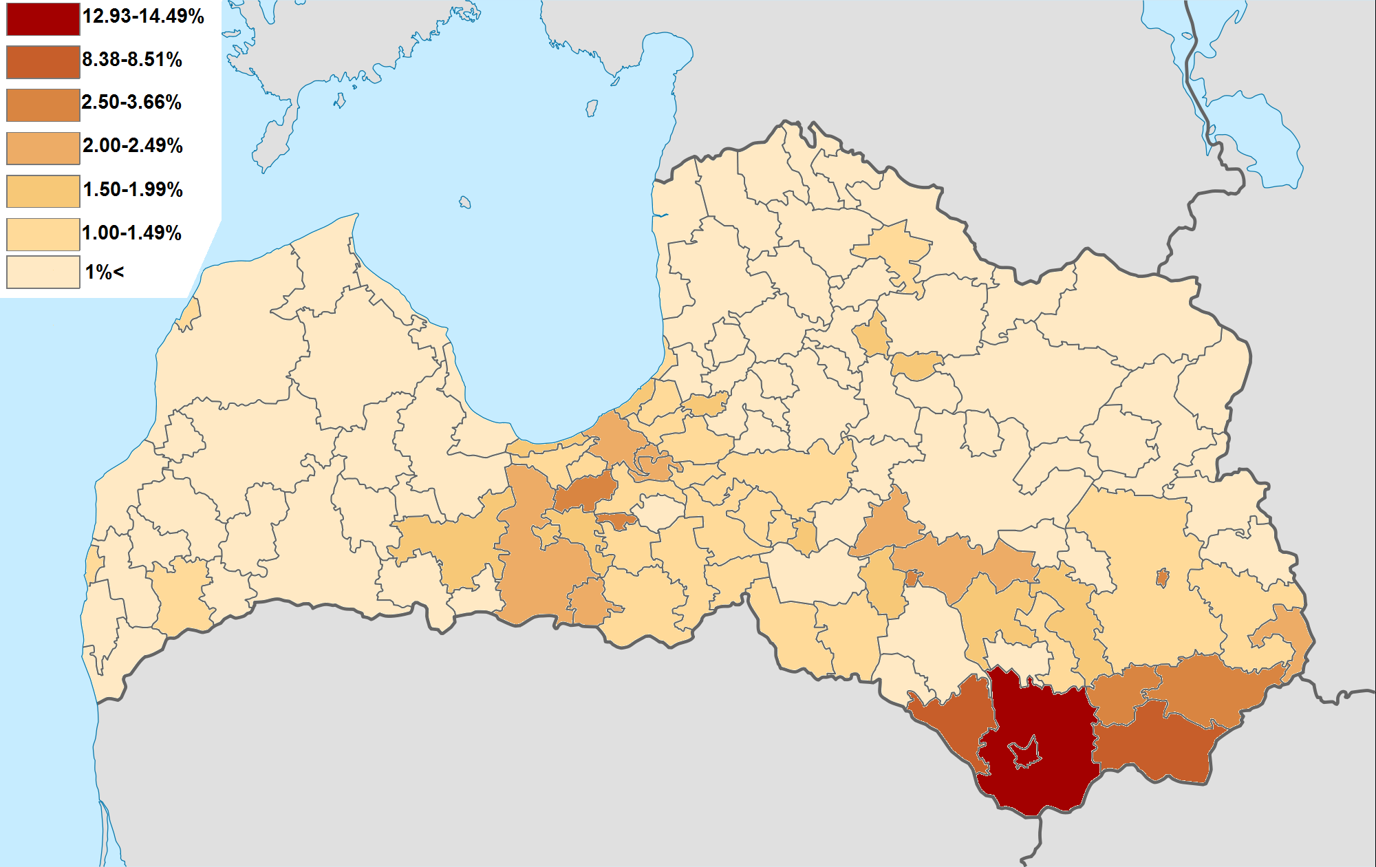 Ethnic Poles in Latvia share, used "Iedzivotaju skaits pašvaldibas pec nacionala sastava (Datums=01.01.2010)" statistic data and File:2000px-Latvia_location_map.svg.png map